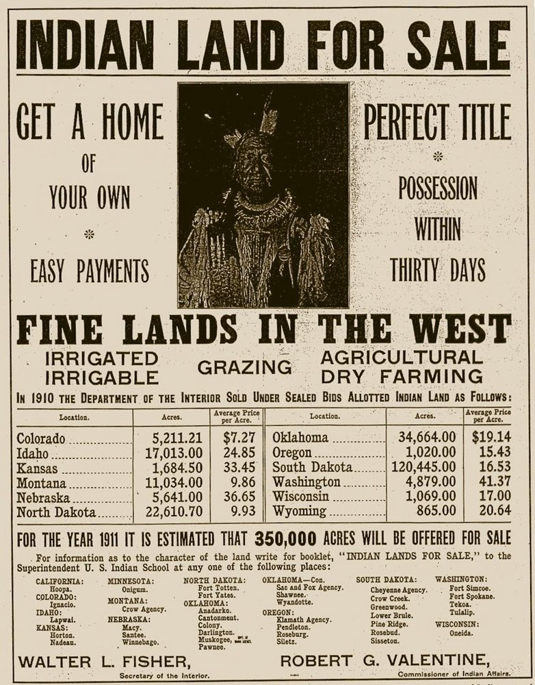 United States Department of the Interior advertisement offering 'Indian Land for Sale'. The man pictured is a Yankton Sioux named Not Afraid Of Pawnee.